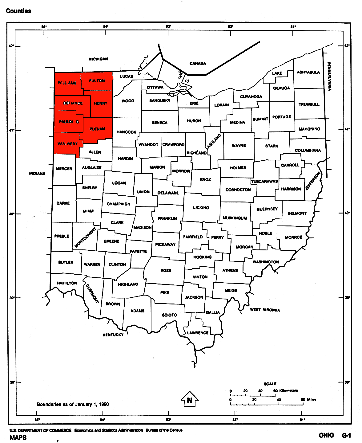 Image:Ohio Counties.gif highlighting Extreme Northwest Ohio